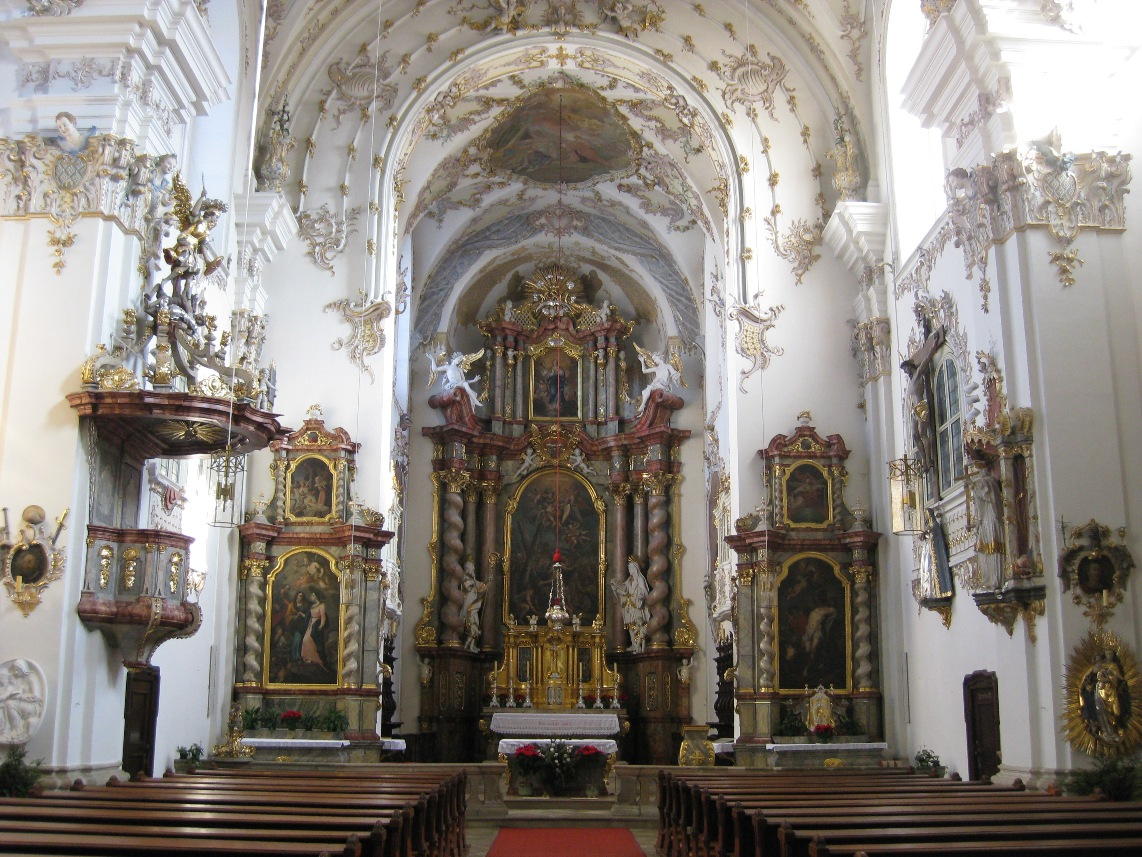 church st. mang andreas regensburg stadtamhof